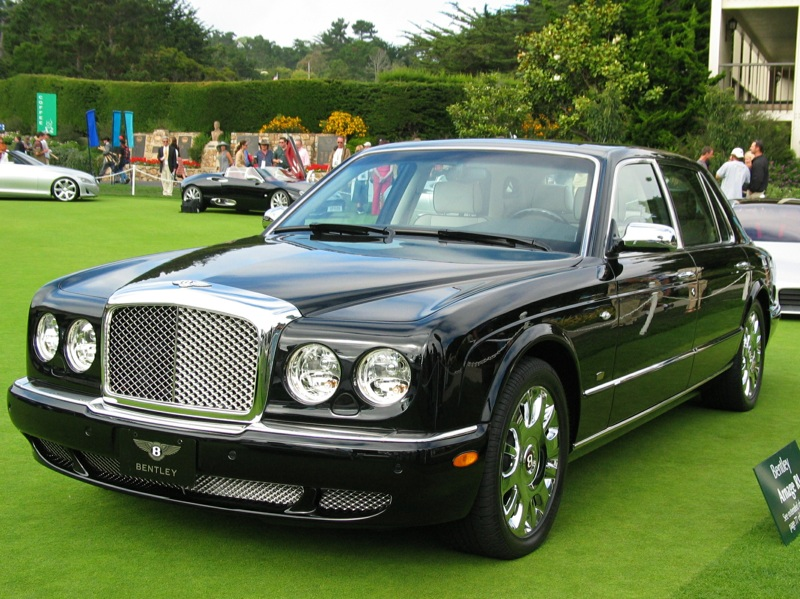 Pebble Beach Concours d'Elegance 2004